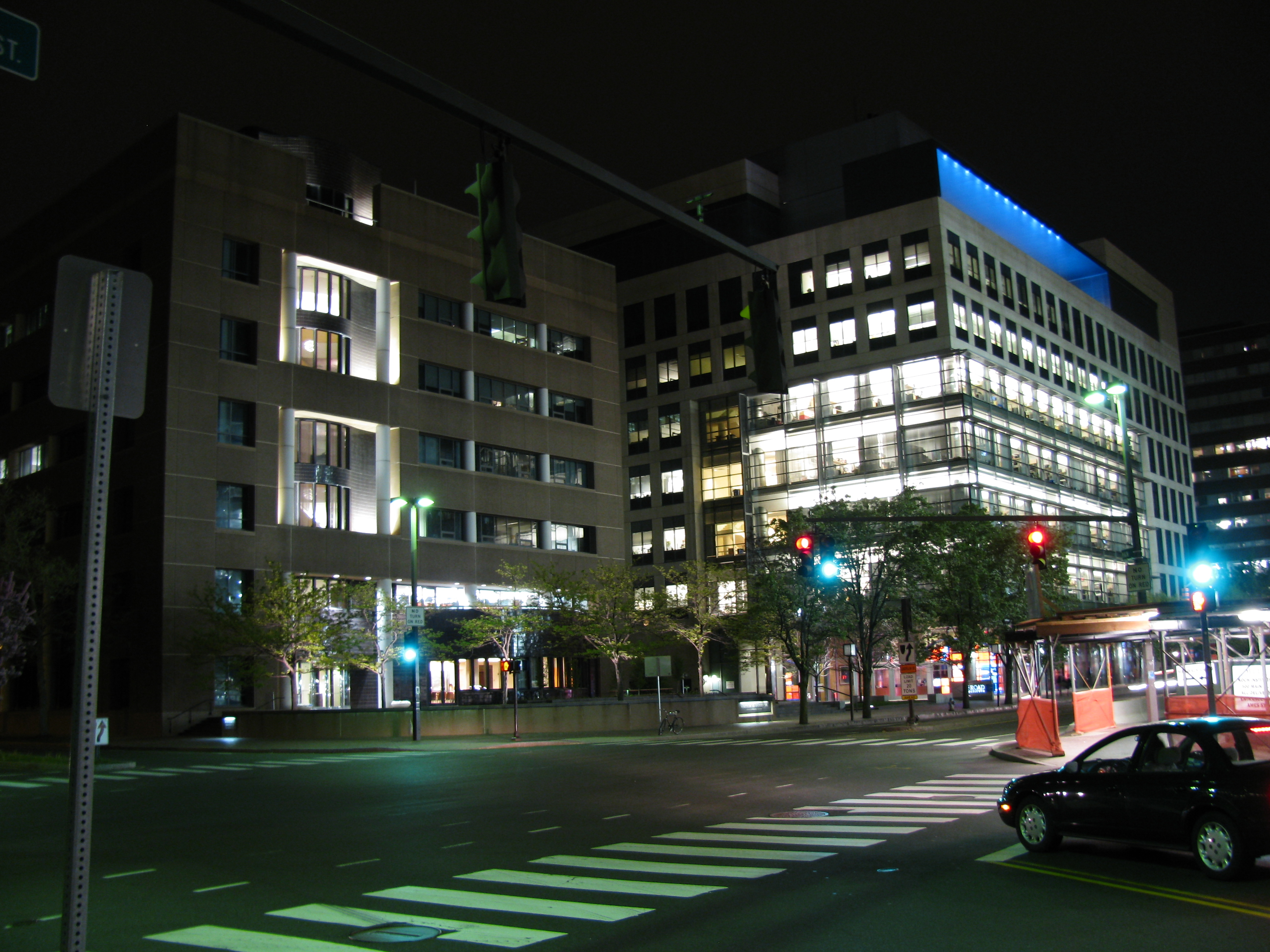 The Whitehead Institute for Biomedical Research (left building) in Cambridge, Massachusetts, at night